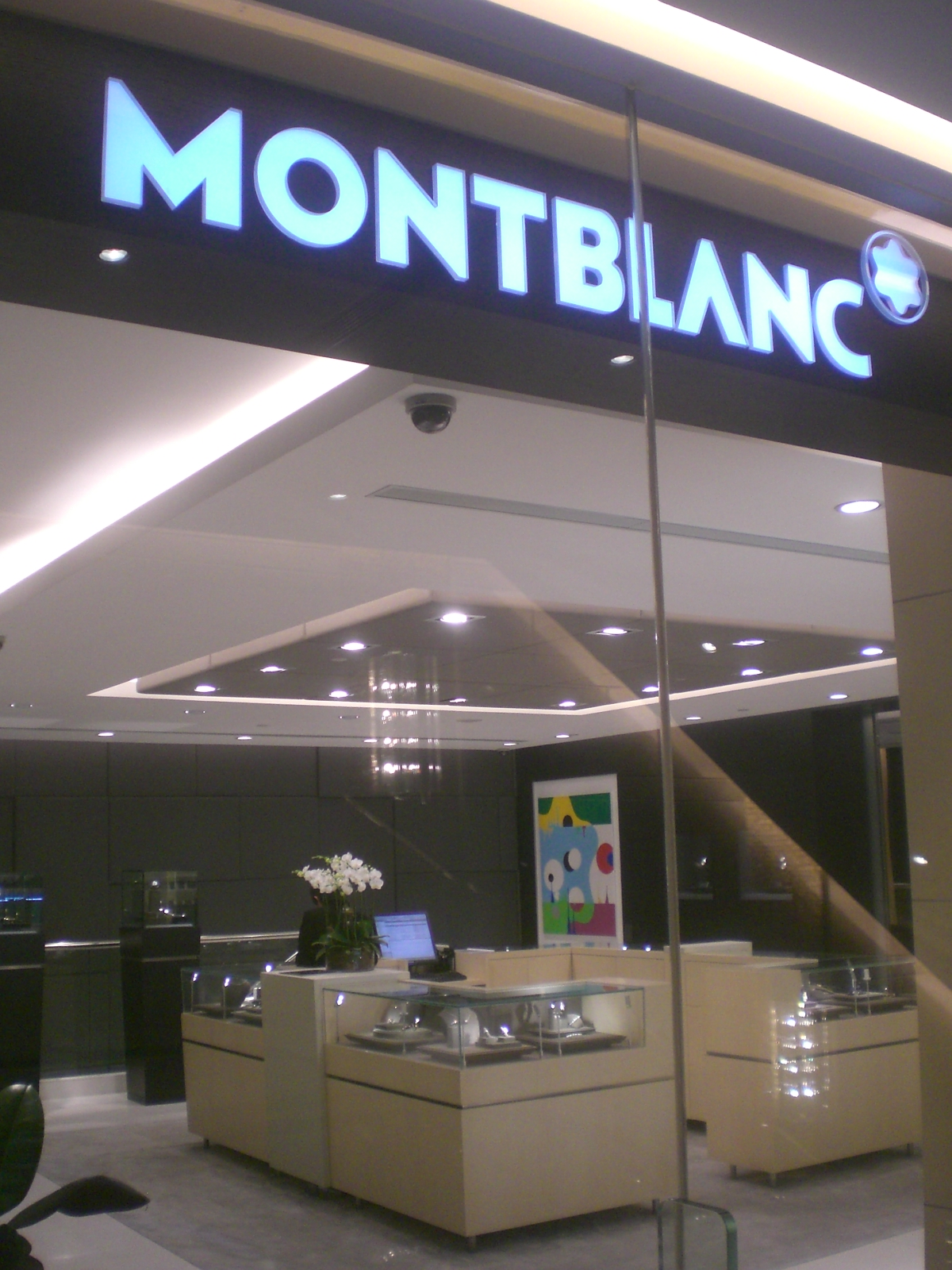 Montblanc (pens)萬寶龍香港zh:尖沙咀en:1881 Heritage店